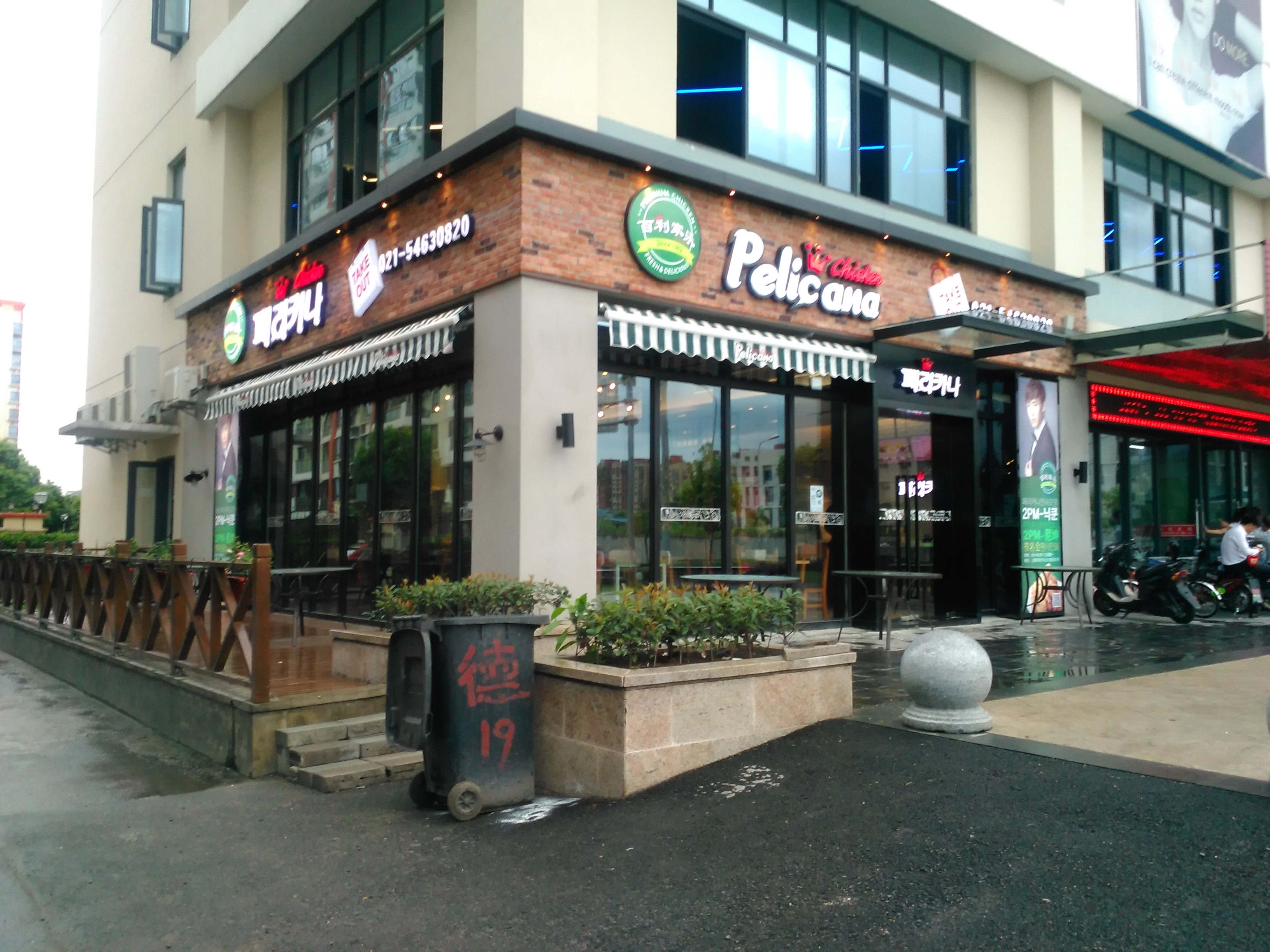 Pelicana Chicken Shanghai